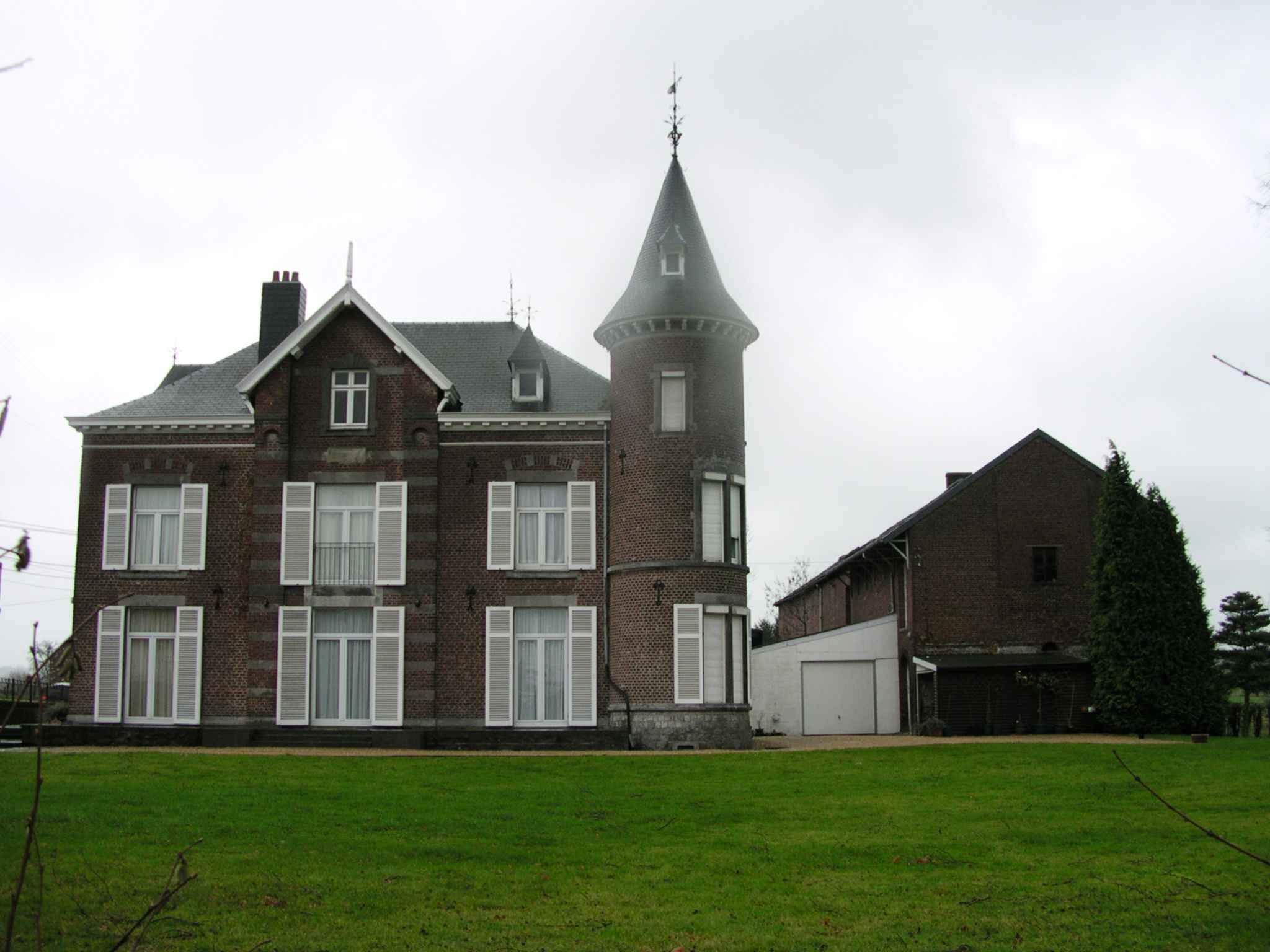 house in Froidthier